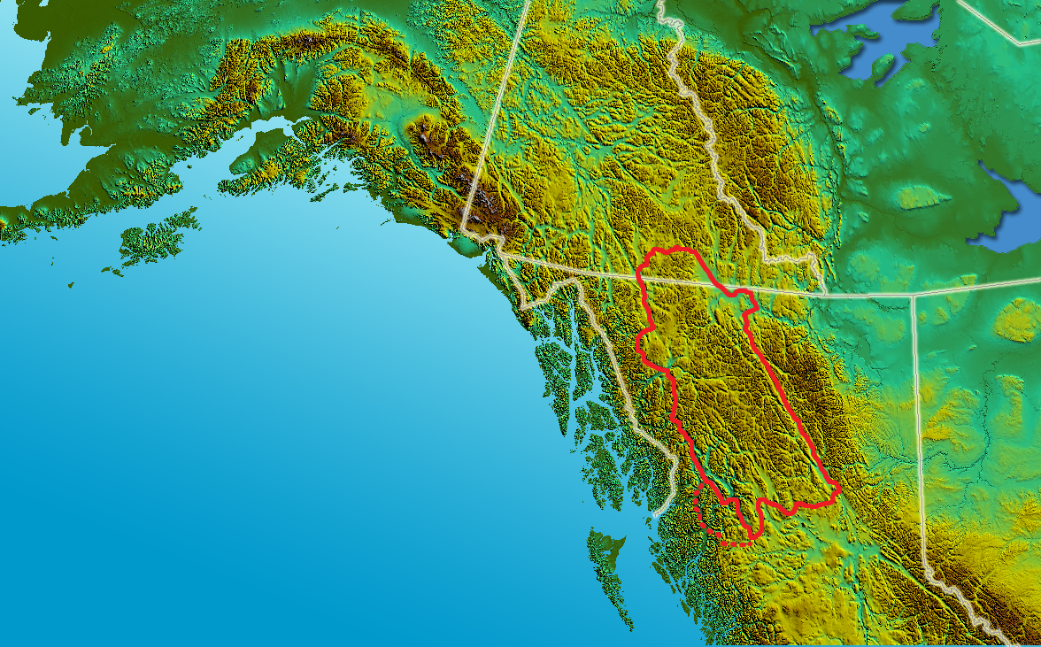 adapted from File:Alaska Panhandle-relief.png already in Wikimedia Commons.